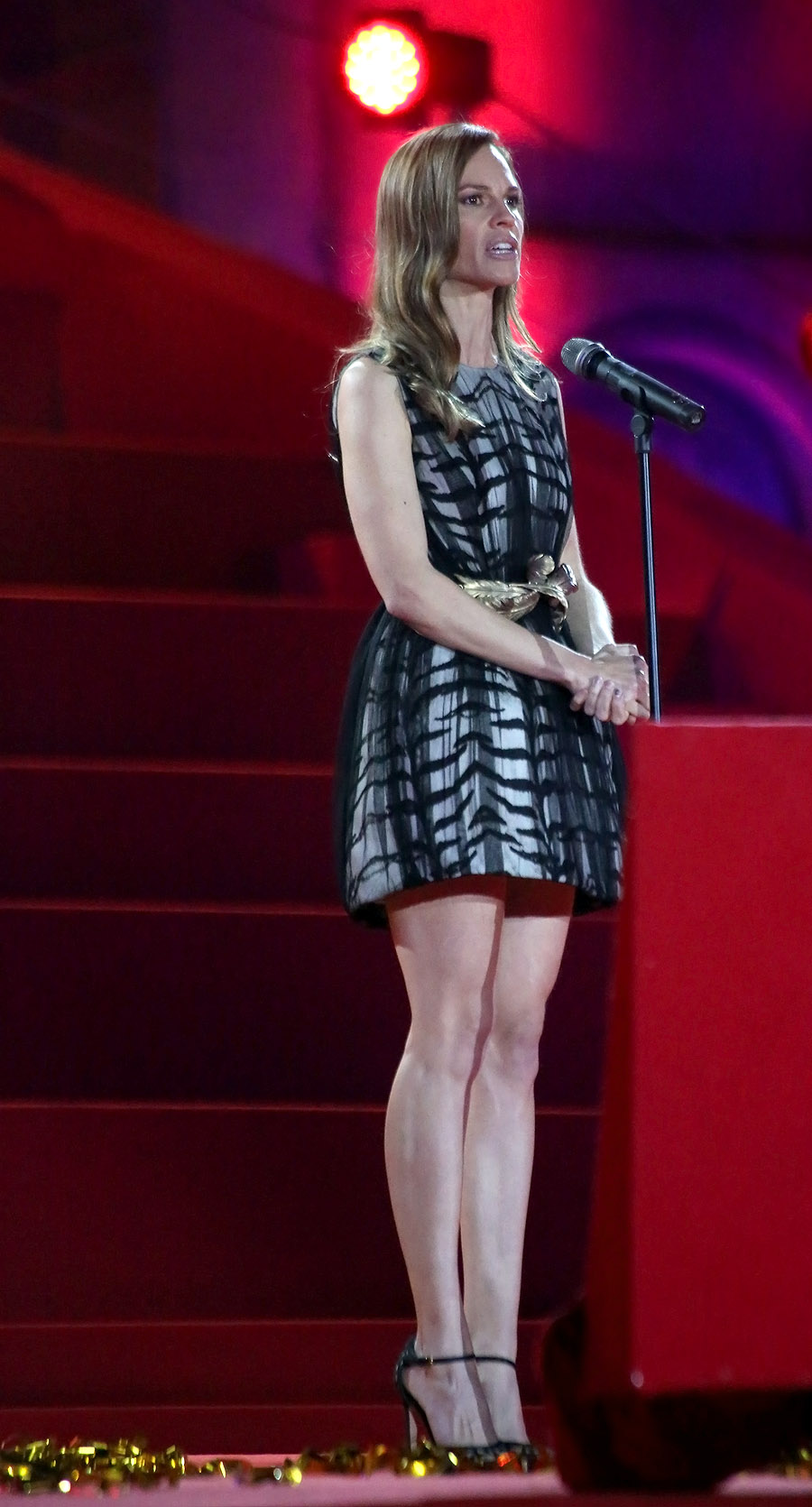 Hilary Swank presenting the Crystal of Hope Award for The Girl Effect, opening show of Life Ball 2013 at the city hall of Vienna, Vienna, Austria.